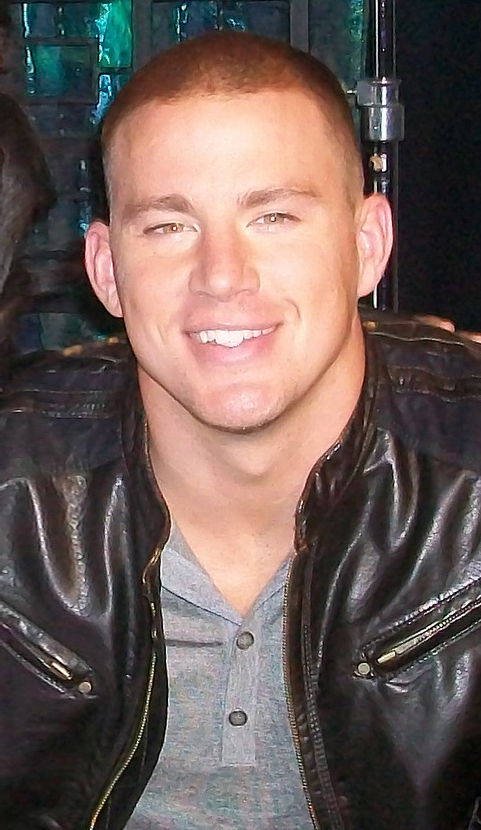 Channing Tatum at the 'Fighting' press junket at the Four Seasons Hotel Los Angeles at Beverly Hills. Taken by his official site .